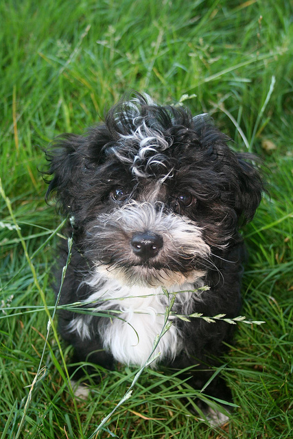 This is a 4-month old pure-bred Irish Pied Havanese canine.